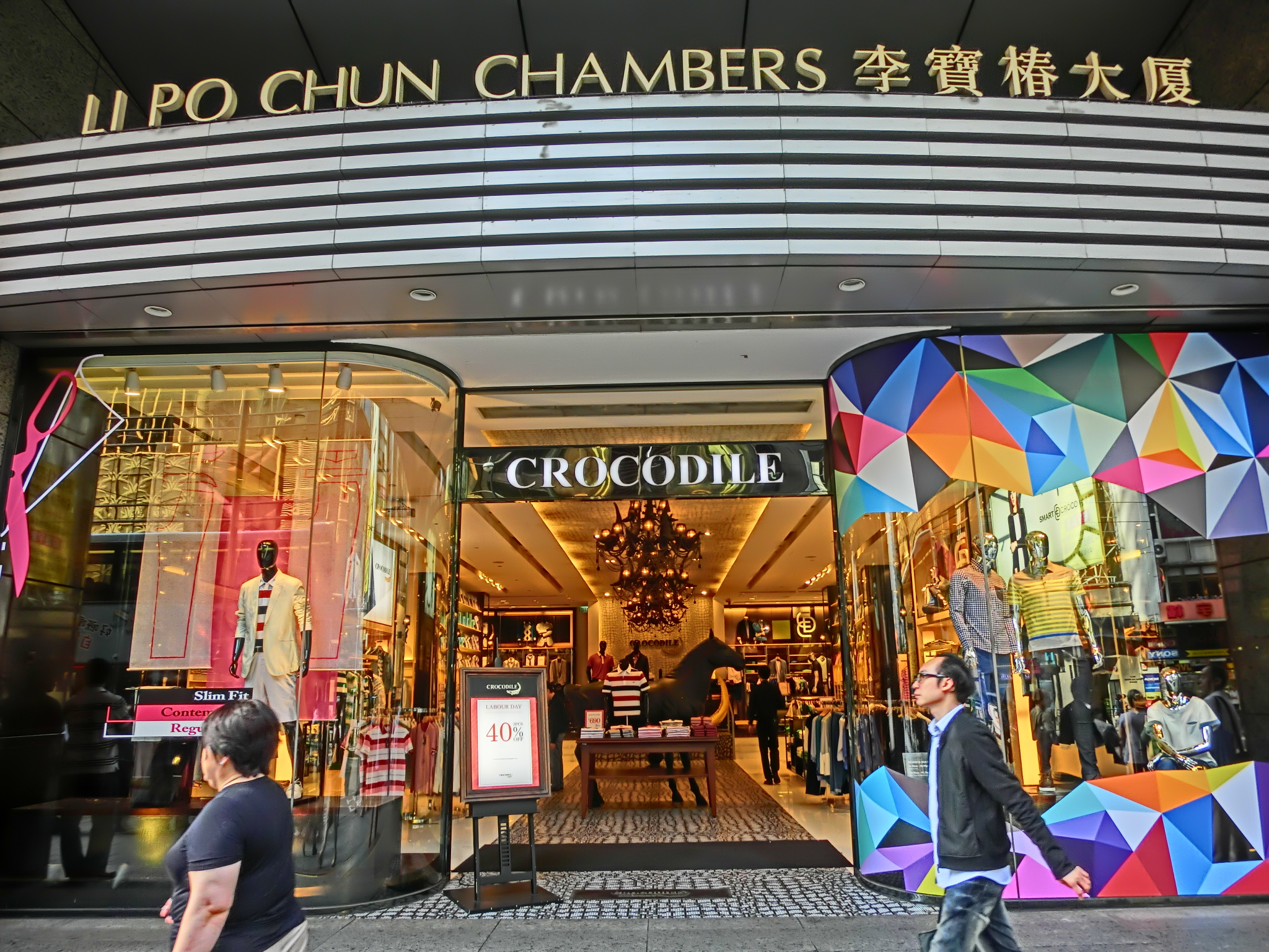 Sheung Wan, Hong Kong